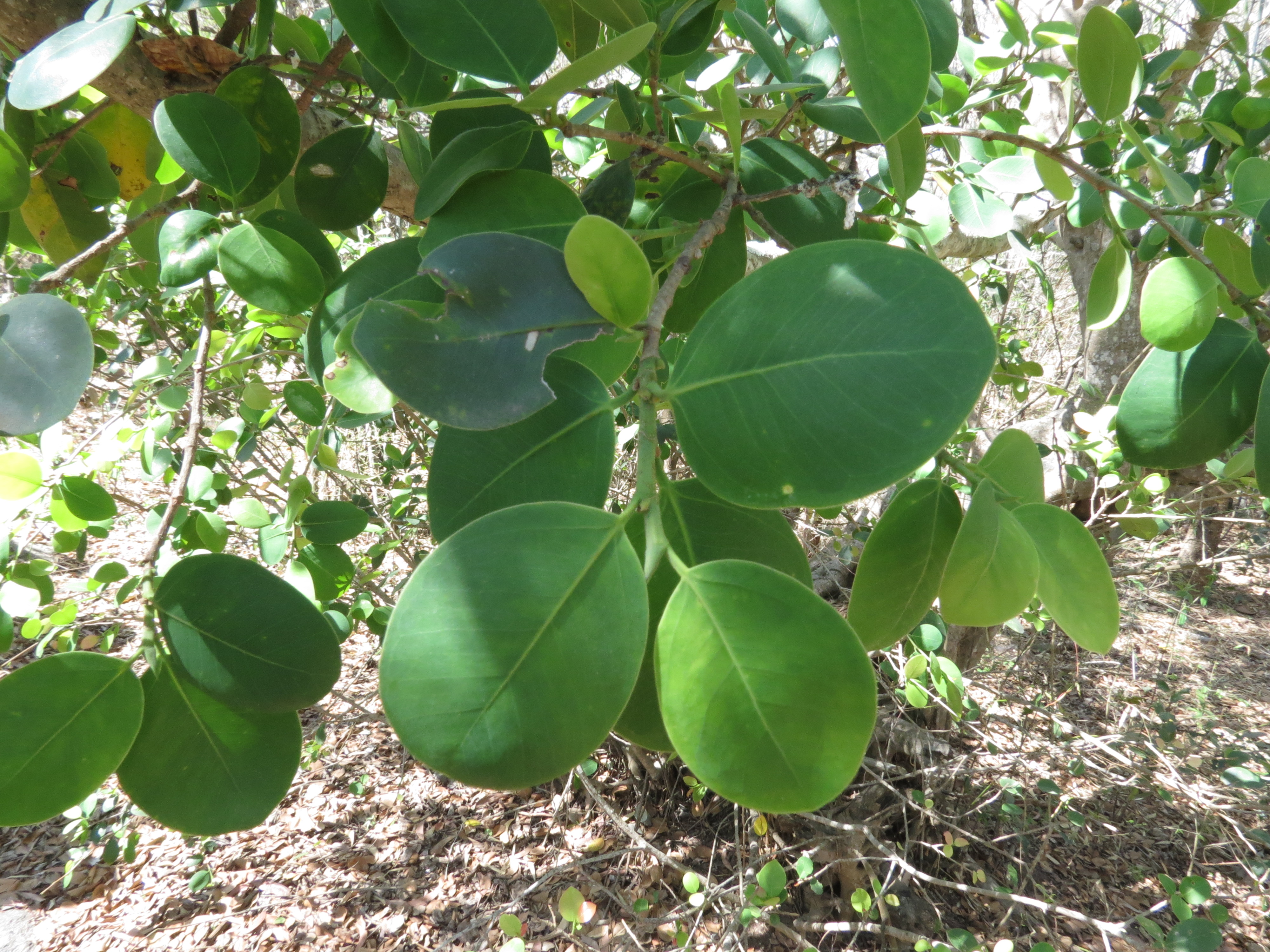 Pterocarpus santalinus seen in Shivanahalli Bangalore